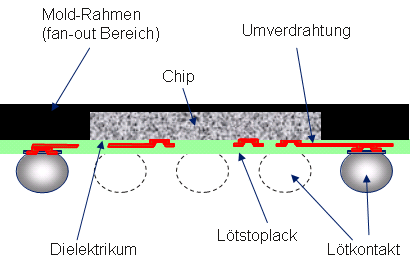 Sketch of eWLB package